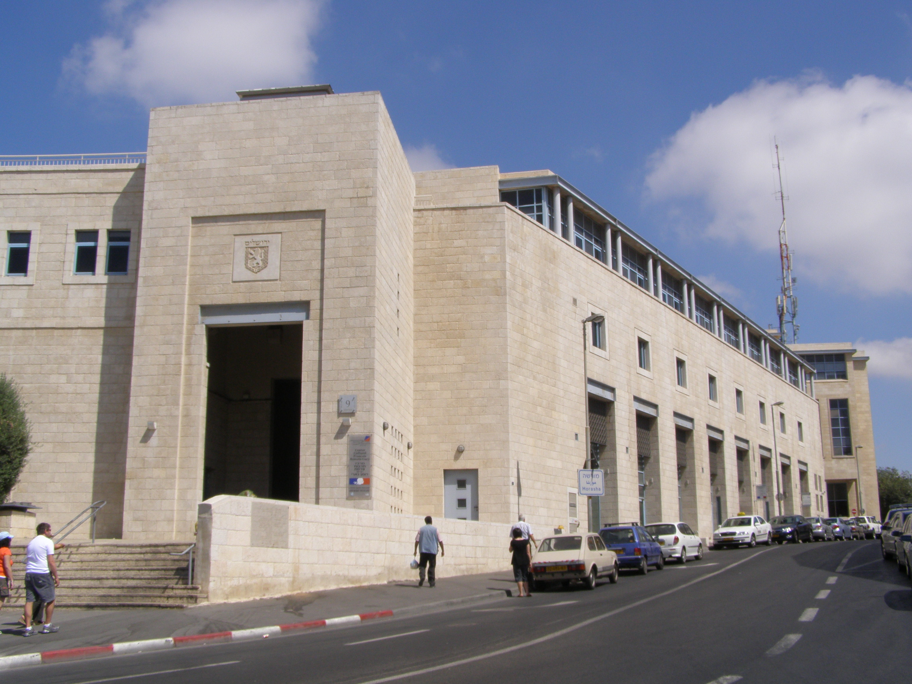 Jerusalem, city hall